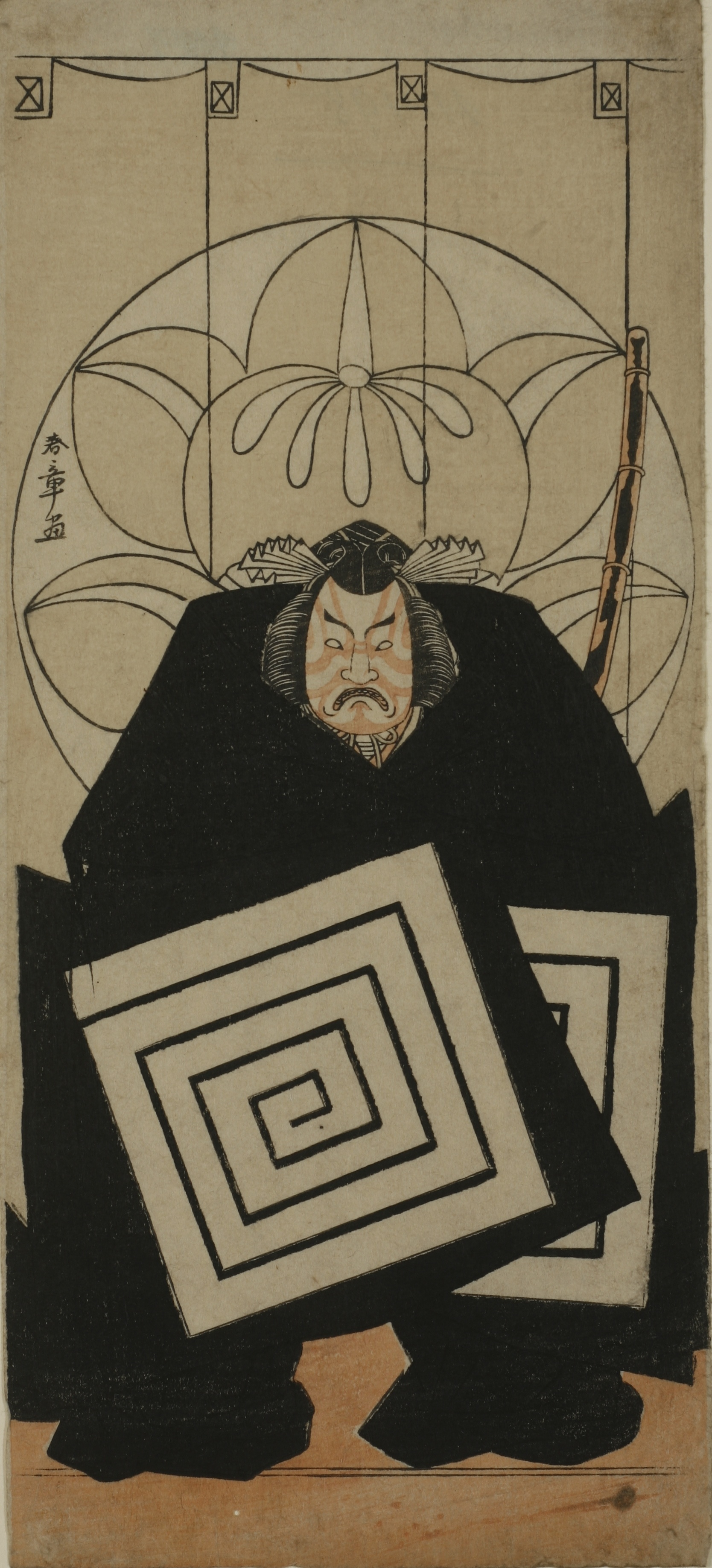 Woodblock print by Katsukawa Shunshō, the actor Ichimura Uzaemon IX in a Shibaraku role, 1778